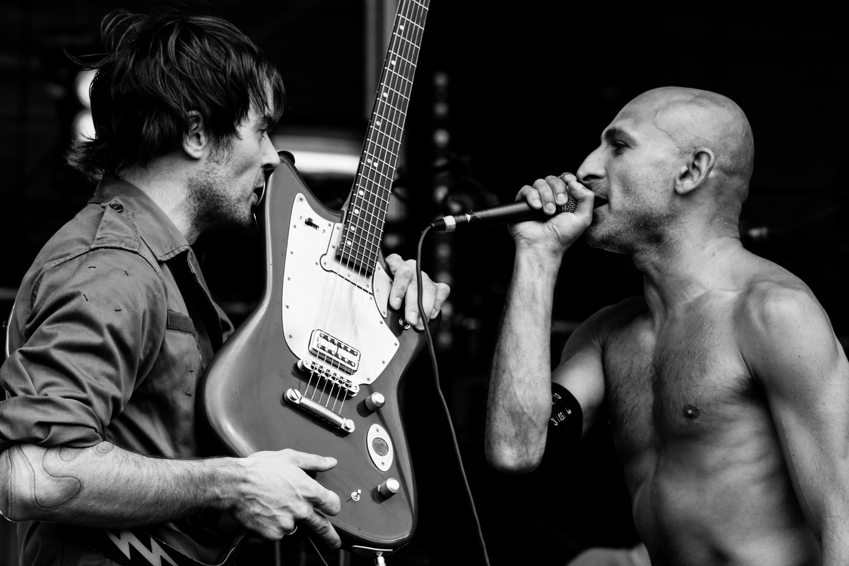 Follow me on facebook Twitter : @didyPhotography All the photographies I've made are now under CC0 (Creative Commons Zero) CC0 - learn more To the extent possible under law, Eddy BERTHIER has waived all copyright and related or neighboring rights to Iggy And No One Is Innocent @ Fête de l'Humanité 2011. This work is published from: France.